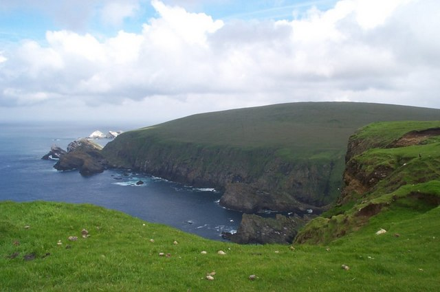 View north from Toolie, Hermaness Looking towards the mound of Hermaness Hill, with the various stacks below the cliffs to the left (the westernmonst one being Burra Stack) and with the south end of the Muckle Flugga reef beyond that.